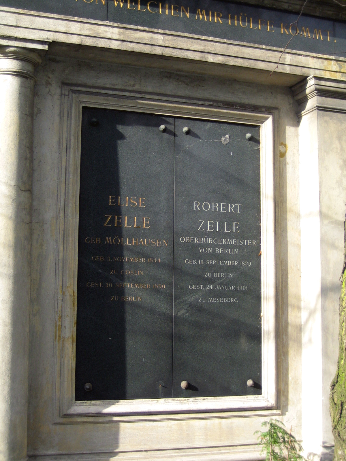 Memorial of the Berlin Lord Mayor (Chief Burgomaster) Robert Zelle